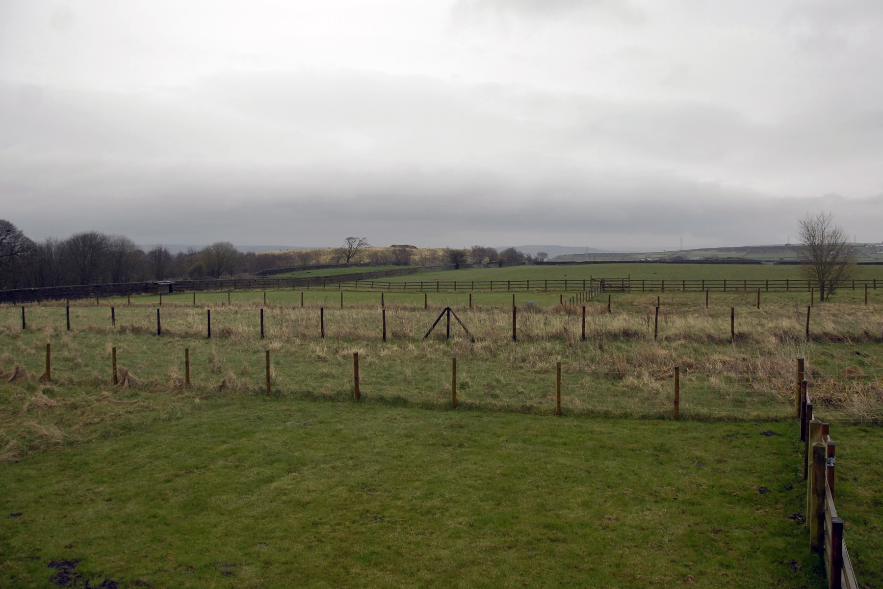 Looking eastwards from the top of Manywells Brow (with the A629 road running to the right of the picture) over the site of RFC Manywells Height